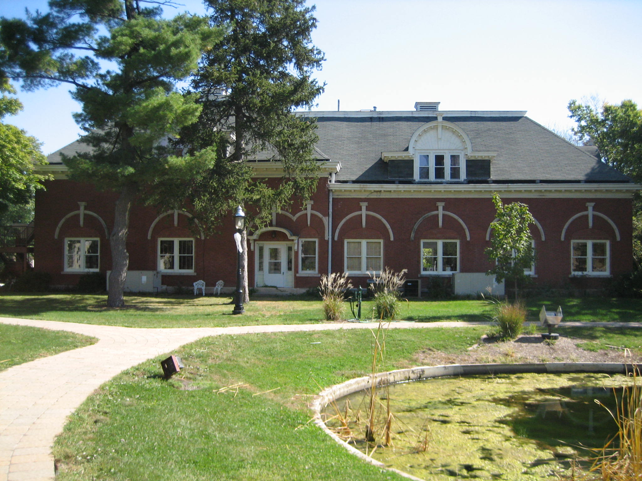 Dwight, Illinois, USA. Downtown. Dwight, Illinois, USA. Public Library.